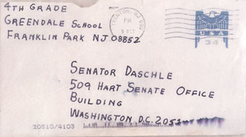 Terrorist letter with anthrax addressed to Democrat Senator Tom Daschle during the en:2001 anthrax attacks. Carta terrorista con antrax dirigida al Senador Demócrata Tom Daschle durante los ataques con antrax de 2001. Image of envelope in which the letter containing Anthrax was sent to Senator Tom Daschle during the en:2001 anthrax attacks. The return address given in the top left says: "4th Grade, Greendale School, Franklin Park, New Jersey, 08852." There is no Greendale School at that address, though there is a Greenbrook School in the locality. Tests conducted at USAMRIID confirmed the presence of fine, "energetic", powdered anthrax within this prestamped 34 cent transmittal envelope. Also present was a one page handwritten letter, clues from which enabled the FBI to create a profile of the sender. The letter was postmarked at the Hamilton Township postal facility at 5:45 p.m. on October 9 2001. By October 11 it had reached the Brentwood postal facility in Washington which processes US Government mail. Two postal workers, Joseph Curseen Jr. and Thomas Morris Jr., died after contracting inhalational anthrax at the Brentwood facility. The 14 000 square foot facility was decontaminated on December 14, 2002 using chlorine dioxide gas. When it was reopened 26 months after the incident the facility was renamed the "Joseph Curseen Junior and Thomas Morris Junior Processing Distribution Center."